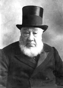 Photo of Stephanus Johannes Paulus Kruger